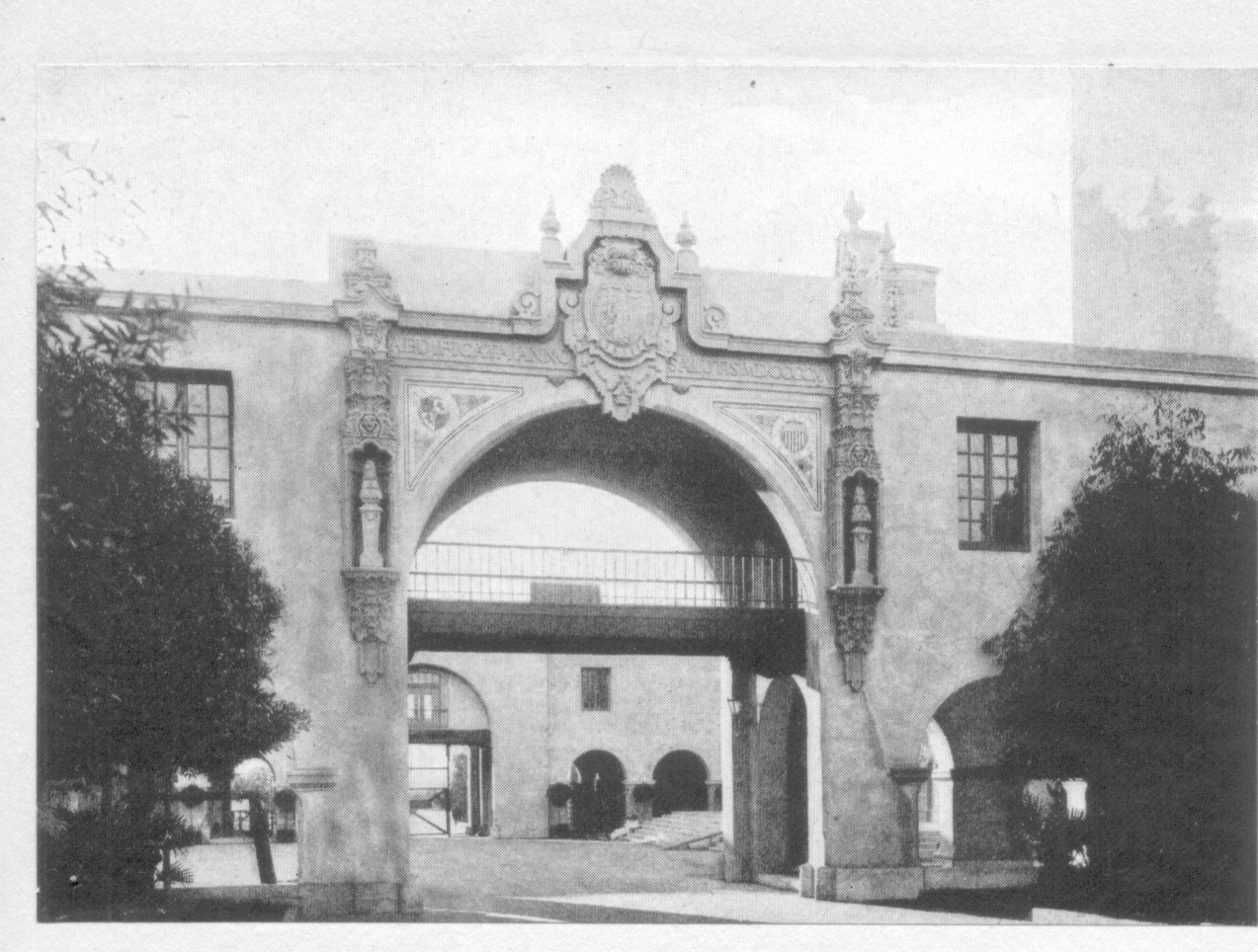 California Quadrangle, the East or State Gateway of the 1915 Panama-California Exposition, Balboa Park, San Diego, California. Spanish Colonial Revival style architecture. As the west gateway of the California Quadrangle is a part of the city-built Fine Arts BUilding, so in like manner the east gateway is designed to be the formal entrance for the California State Building. This is clearly indicated by the conventionalized coat-of-arms of the State over the arch, executed, as is all the decorative work excepting the spandrels, in modeled stone. The spandrels over the arch are filled with high-glazed colored tile representing, or rather commemorating, on one side the commencement of the Spanish occupation of California, and on the other that of the American government, two important dates in the history of the State. These historical events are represented by the coat-of-arms and motto of Spain and the date, 1769, that of Junipero Serra's arrival in Sand Diego; and by the seal of the United States with the data 1846, that of the State Constitutional Convention at Monterey.